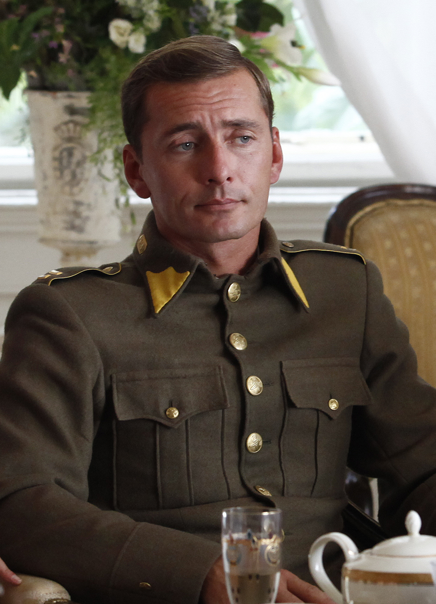 První republika (TV serie)